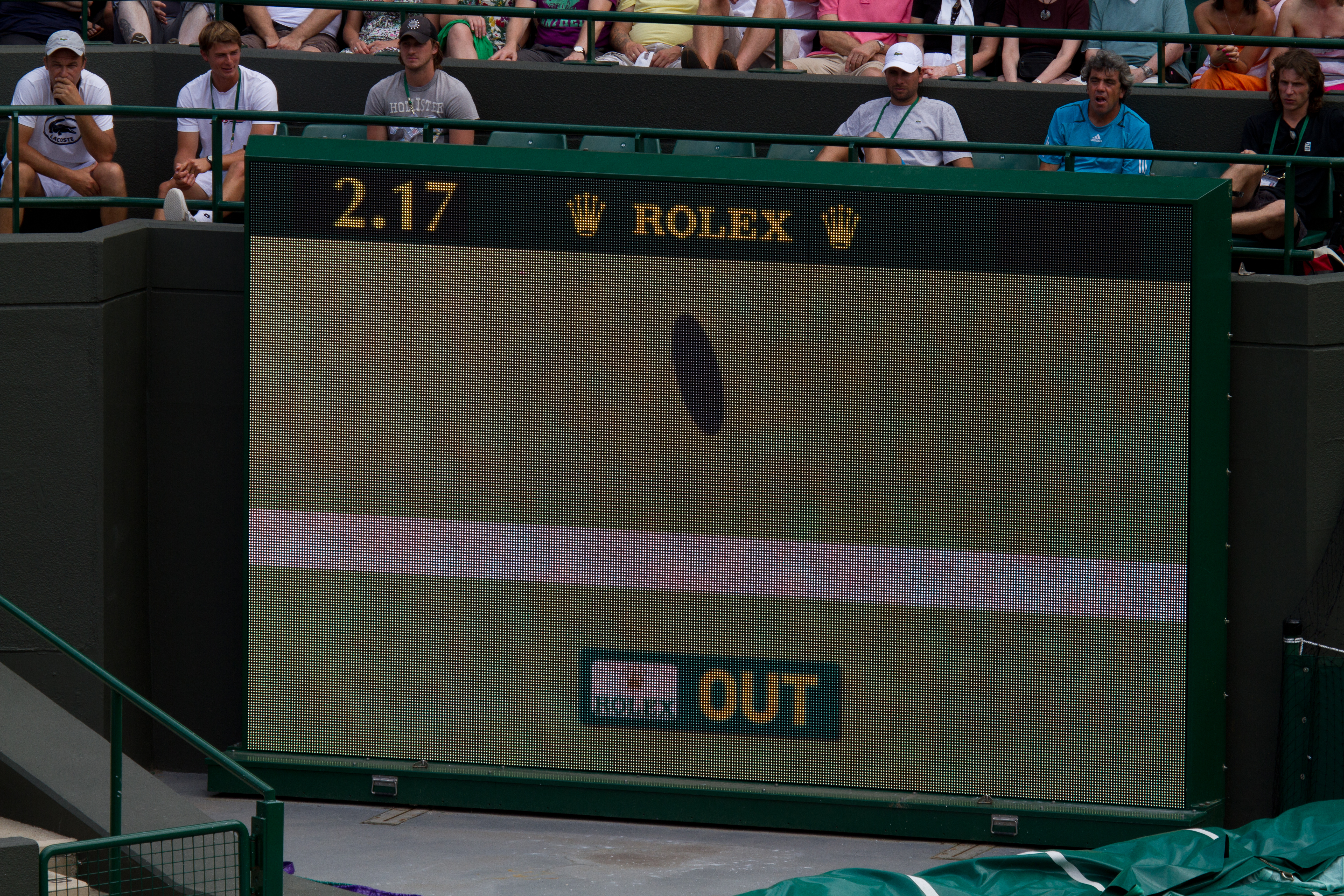 Challenge, at Wimbledon 2010